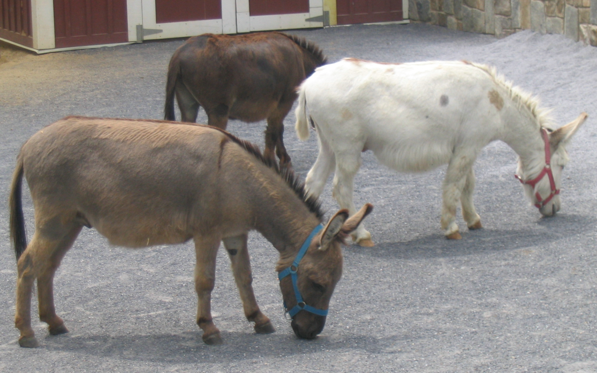 Miniature Mediterranean Donkey at the Smithsonian Zoo.